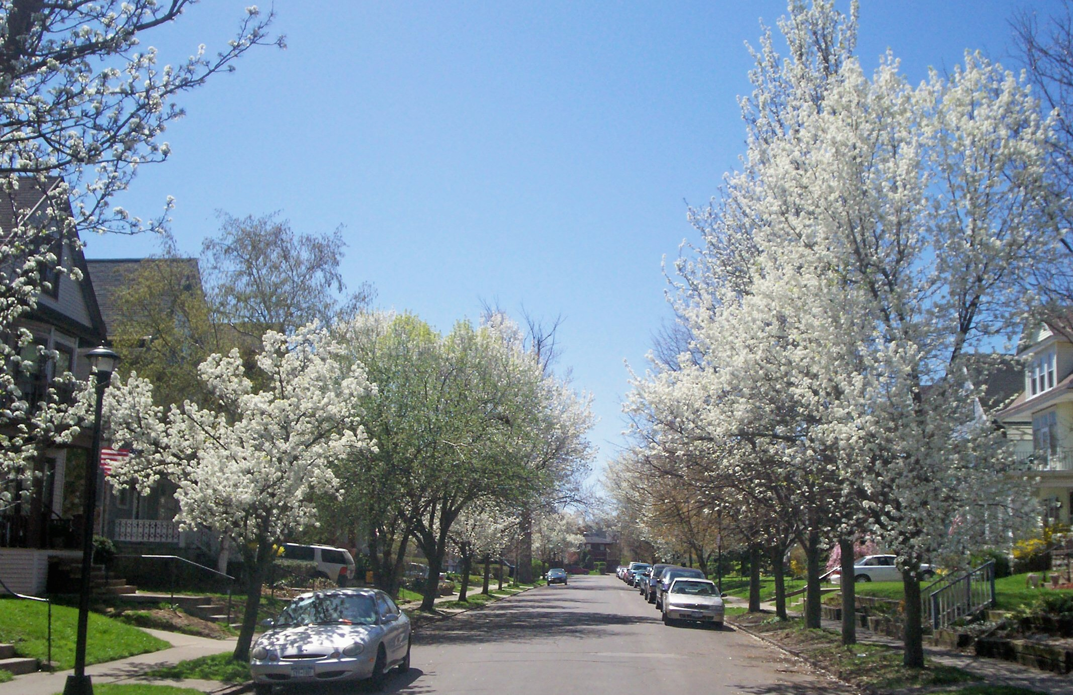 Image: Buffalo In Bloom: Blossoms on Granger Place in Buffalo, New York. Taken: March 26, 2006. Source: I am the author of this image.